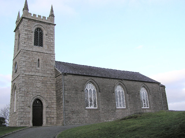 St Patricke Church of Ireland, Kildress. It is near Wellbrook Beetling Mill.